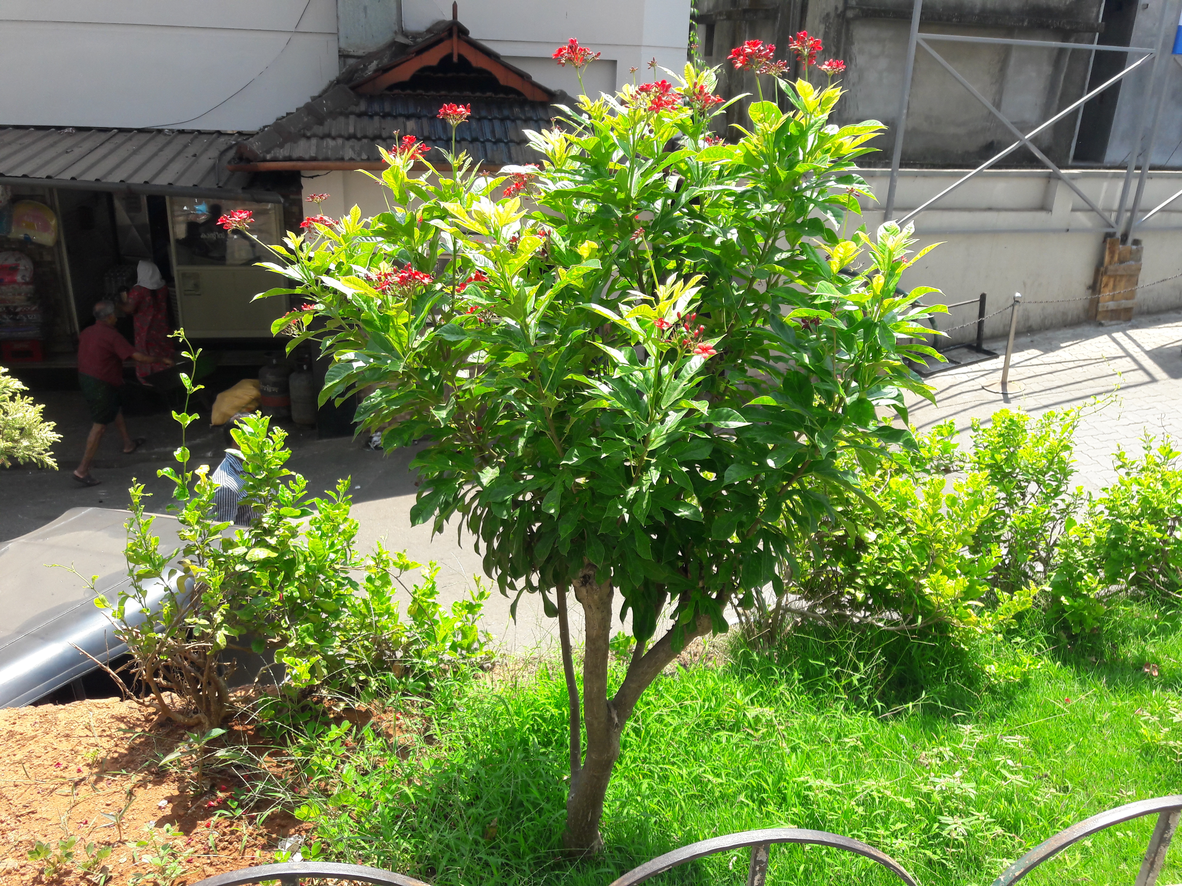 Jatropha plant